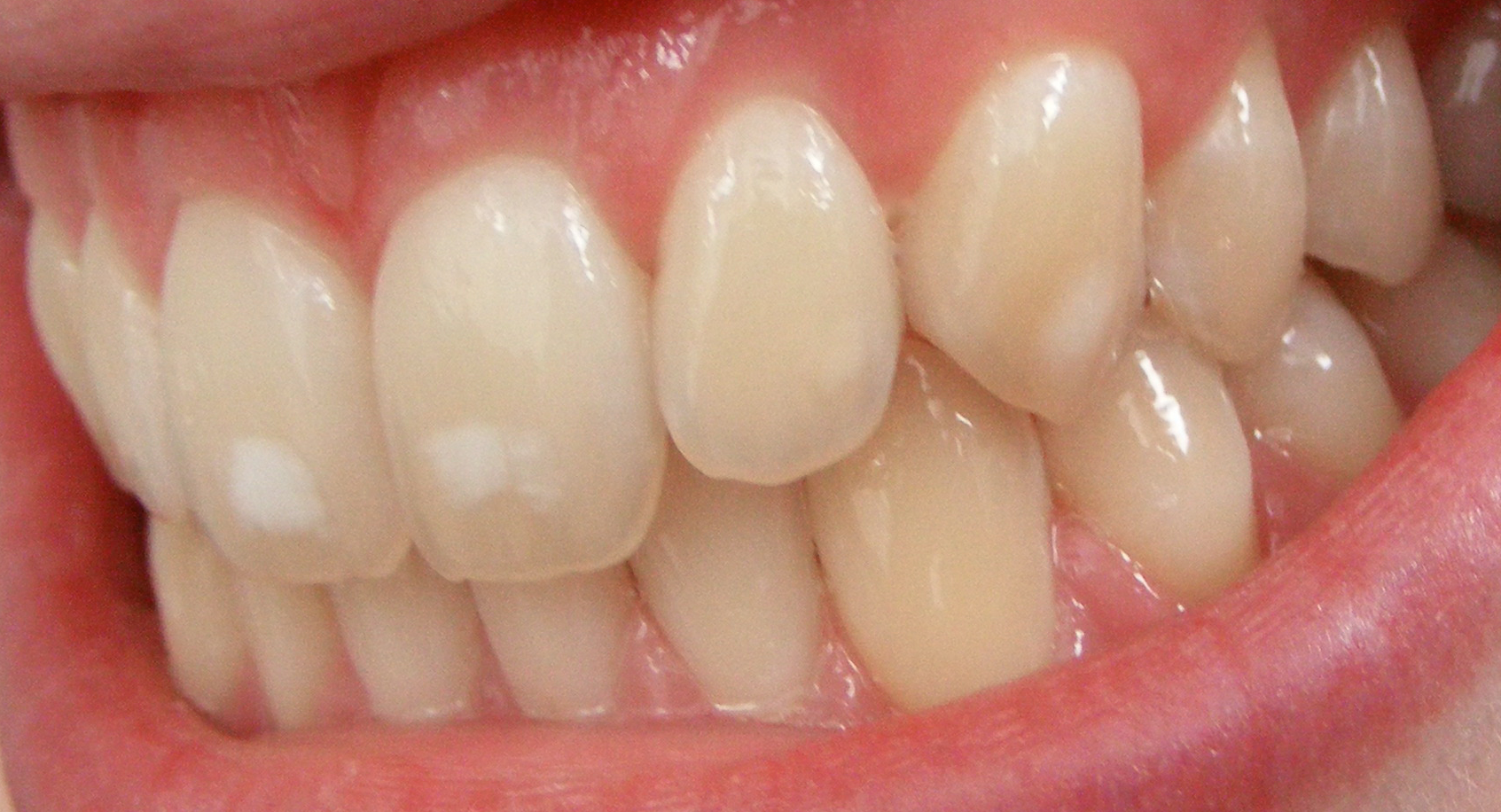 Lossless crop of Dental fluorosis.jpg